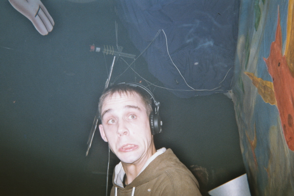 DJ Sharkey DJing at Vibealite 9th birthday on Friday 4th October 2002 at The Emporium, Leicester.